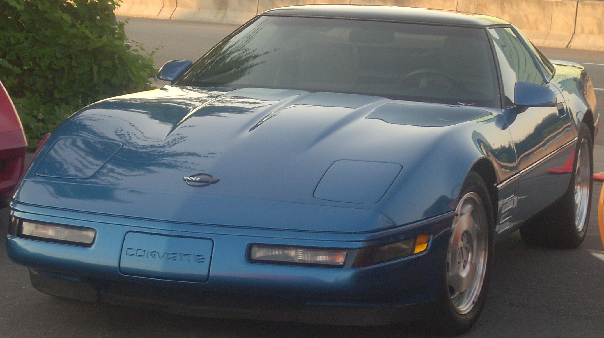 Chevrolet Corvette photographed in Montreal, Quebec, Canada at Gibeau Orange Julep.